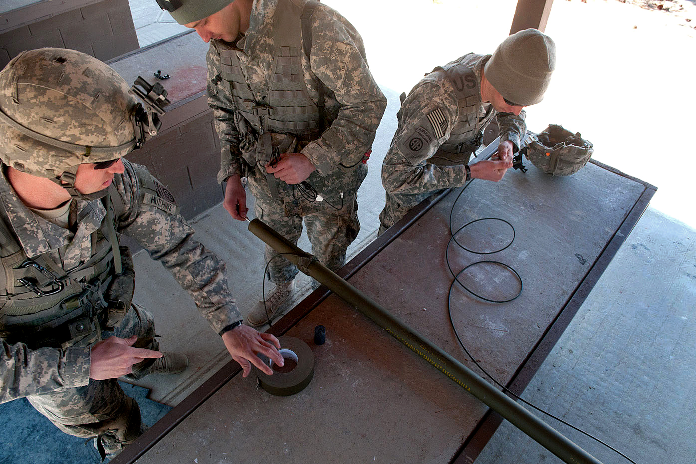 Army combat engineers prepare to detonate a Bangalore torpedo on Fort Bragg, N.C., Feb. 23, 2011. The soldiers are assigned to the 82nd Airborne Division’s 1st Brigade Combat Team.